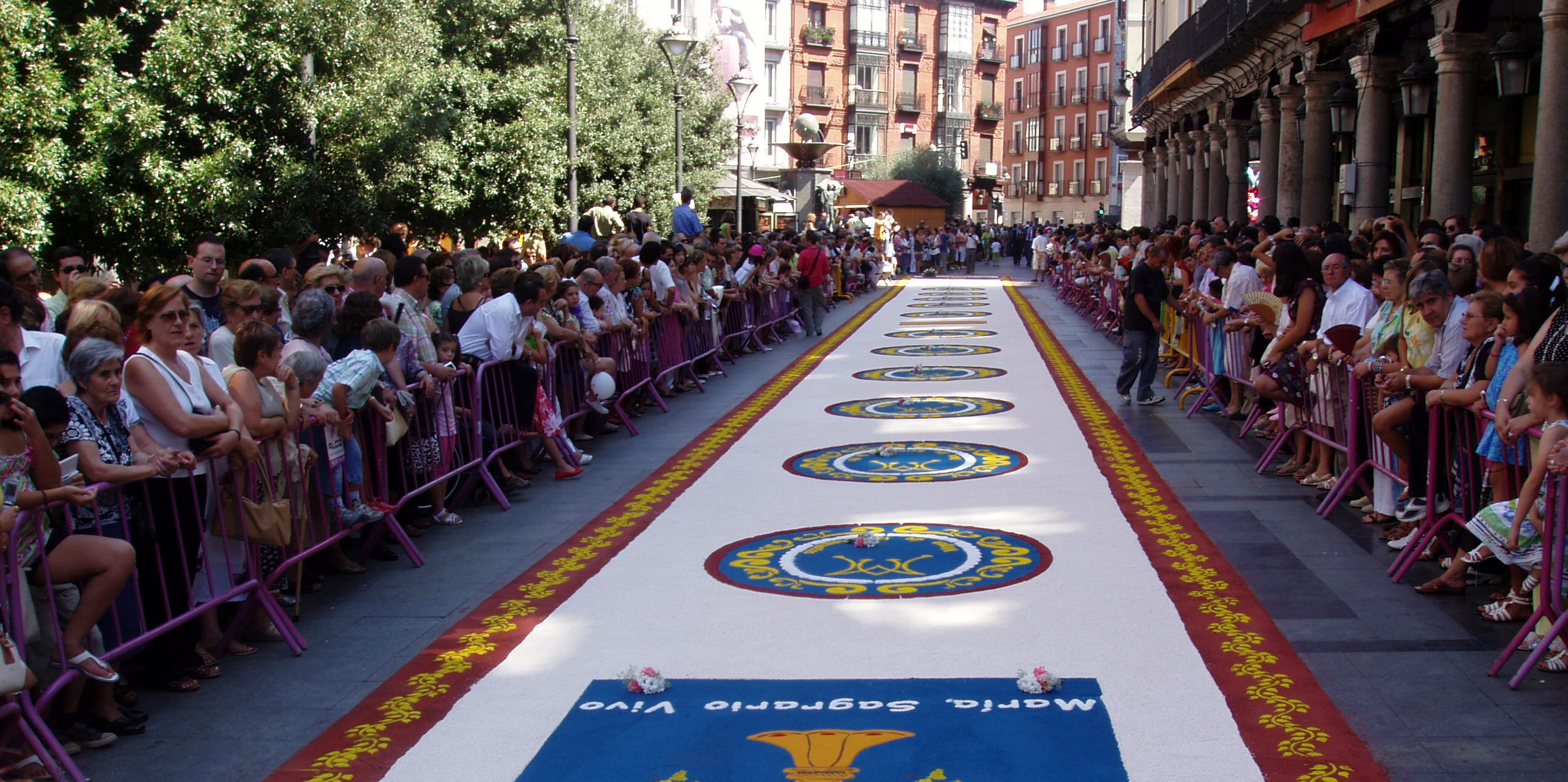 Sand's rug in Valladolid for 2009 Virgen de San Lorenzo procession.